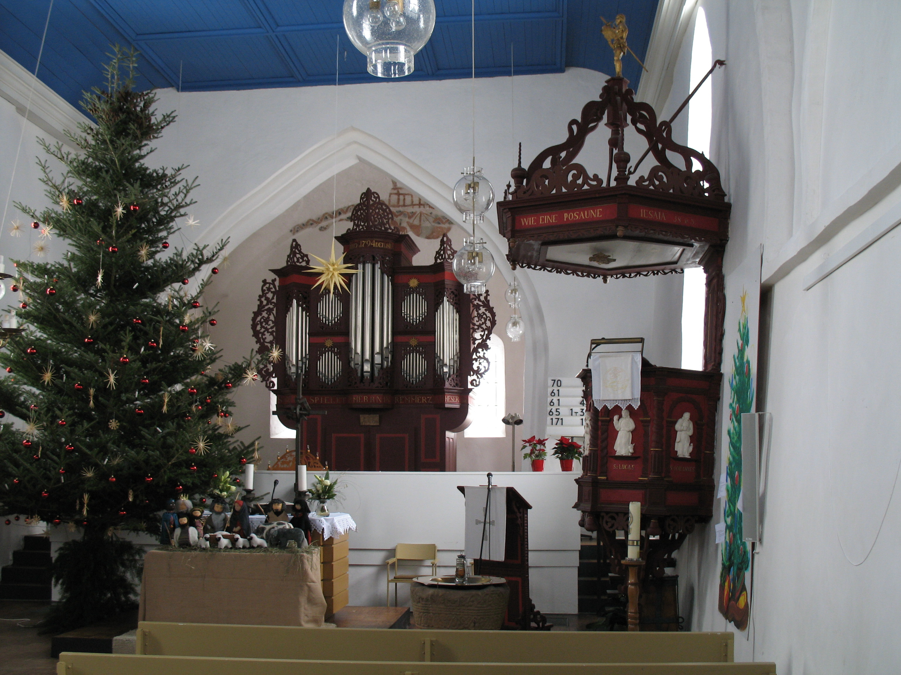 Organ in Aurich-Oldendorf.